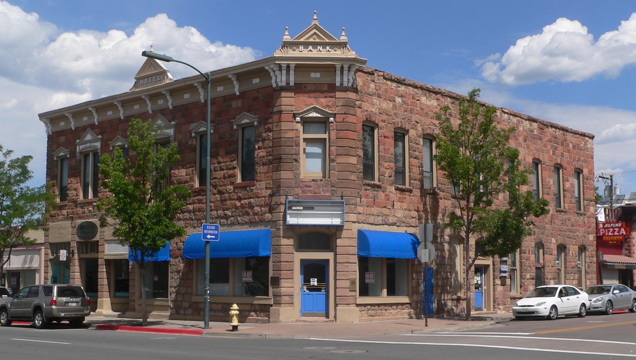 Bank Hotel, a.k.a. McMillan building, located at northwest corner of Leroux Street and Santa Fe Avenue in Flagstaff, Arizona: seen from the southeast. The car at left is on Santa Fe; the cars at right are on Leroux.